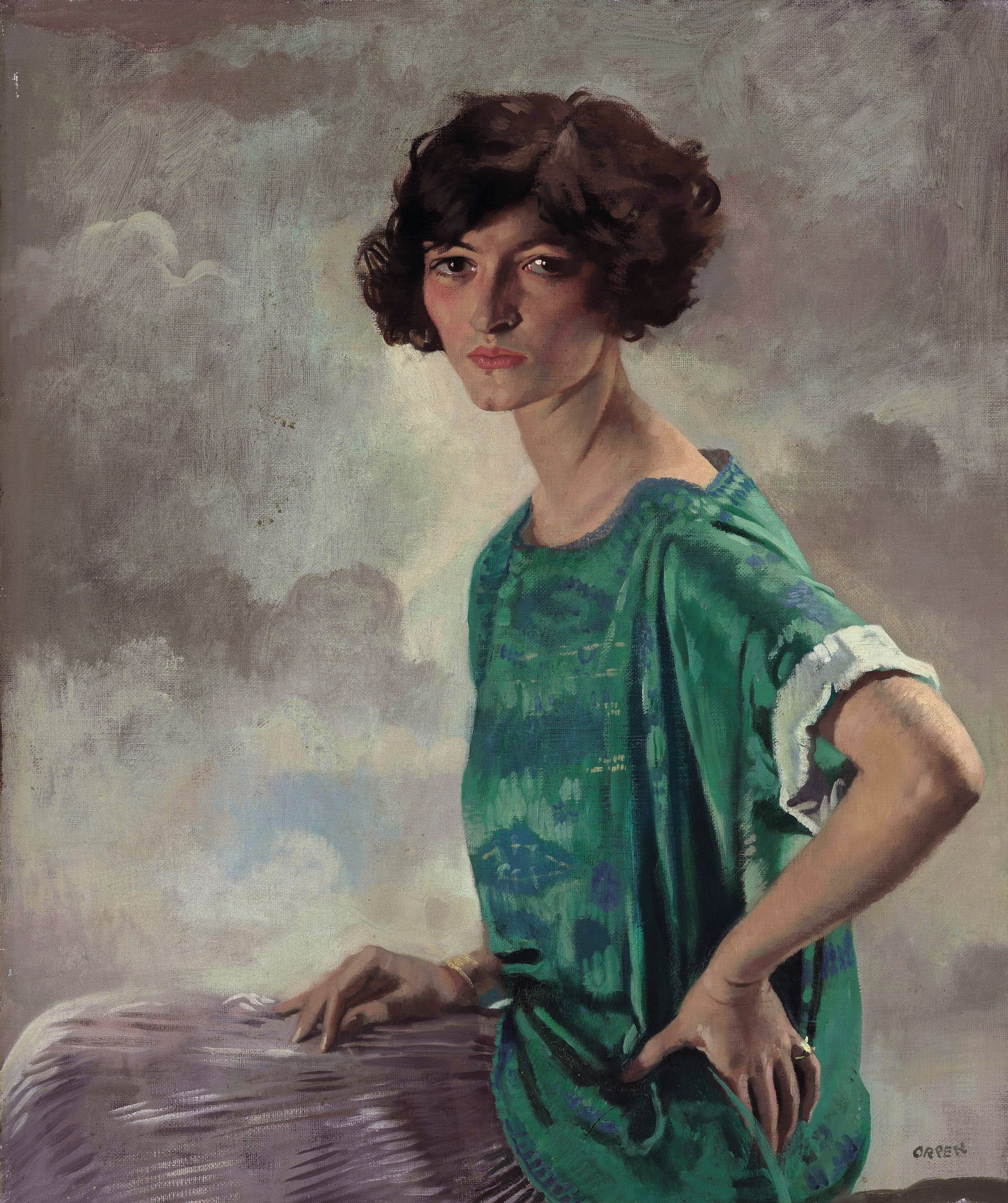 Gertrude Sanford signature 'ORPEN' (lower right) oil on canvas 91.5 x 76.2 cm.